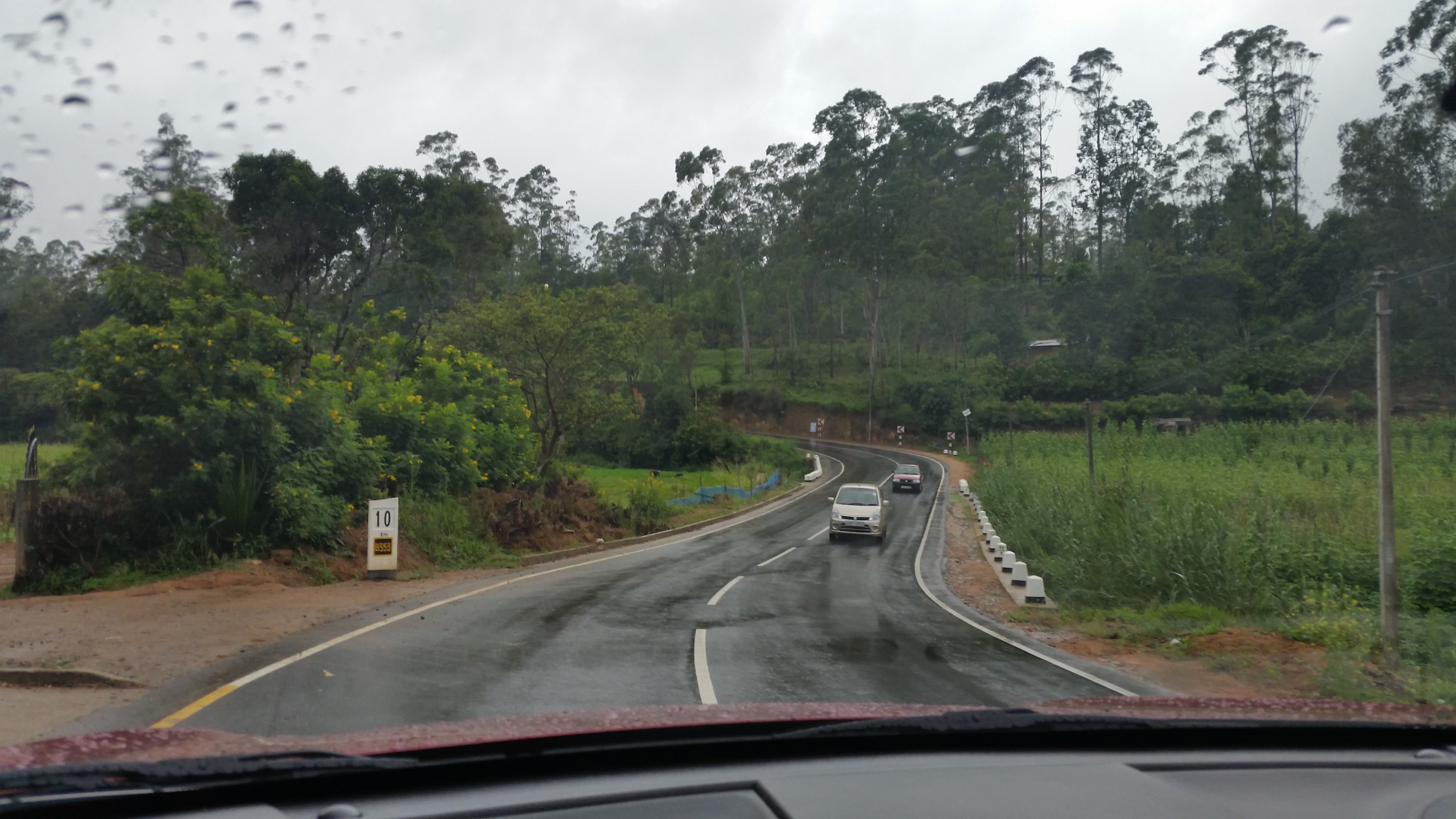 Typical single carriage B class road Sri Lanka 2016